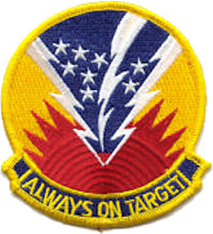 Emblem of the 62d Bombardment Squadron (SAC)